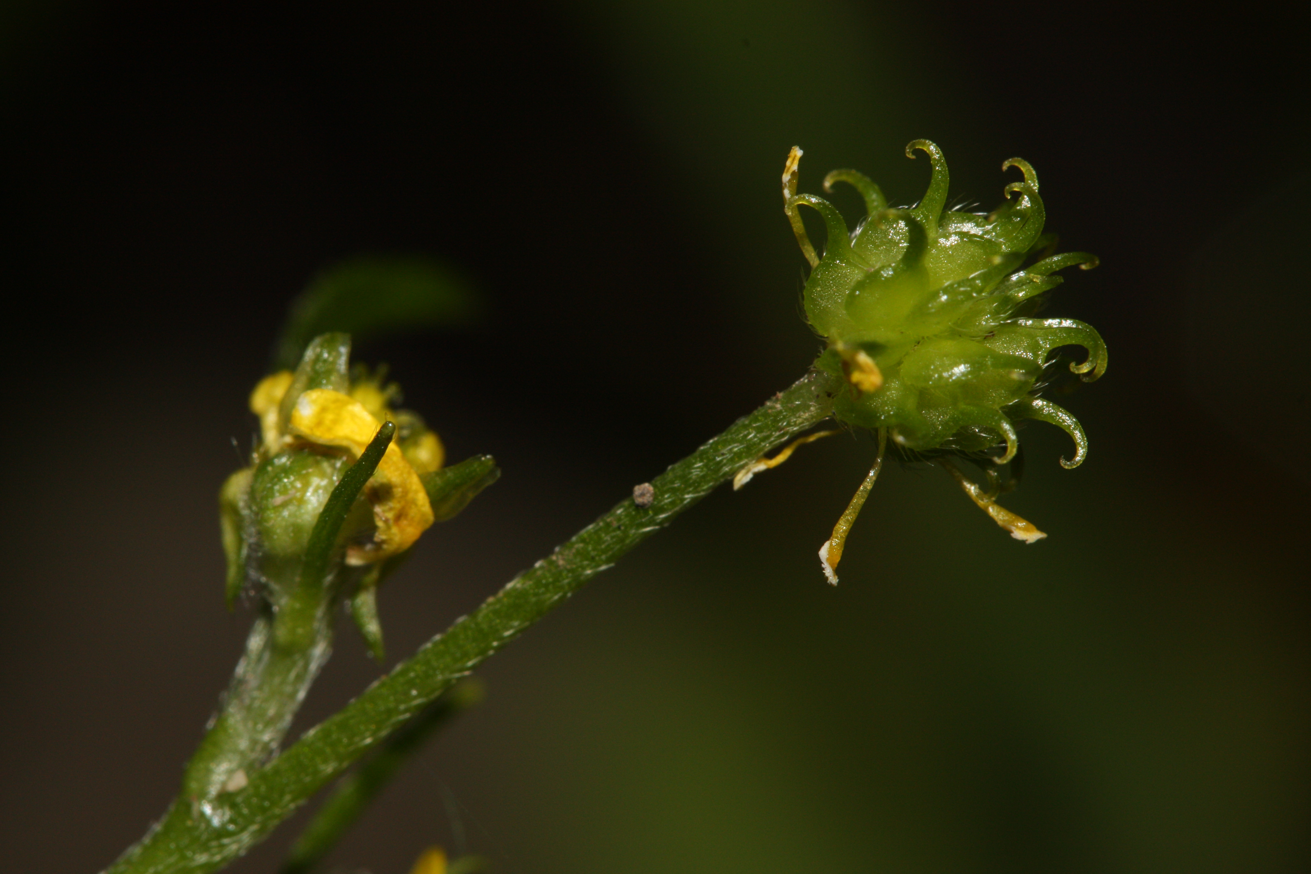 Woodland Buttercup, Little Buttercup